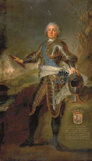 Portrait of Jacques Henri of Lorraine, Prince of Lixin (1698-1734)